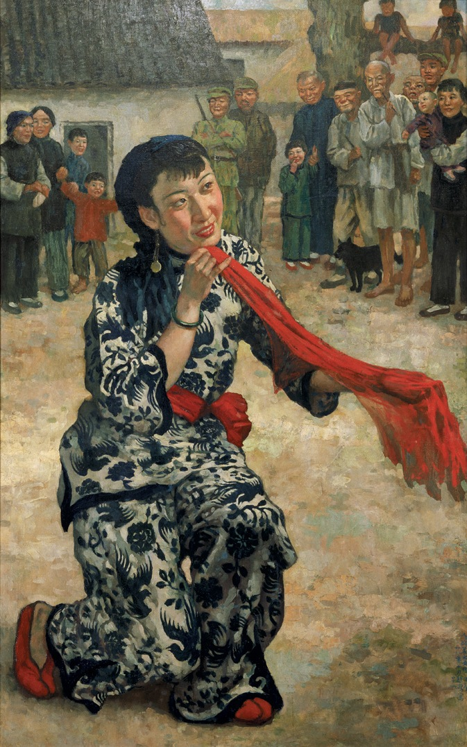 Put Down Your Whip, 1939 oil painting by Xu Beihong, portraying actress Wang Ying's performance of the eponymous play.